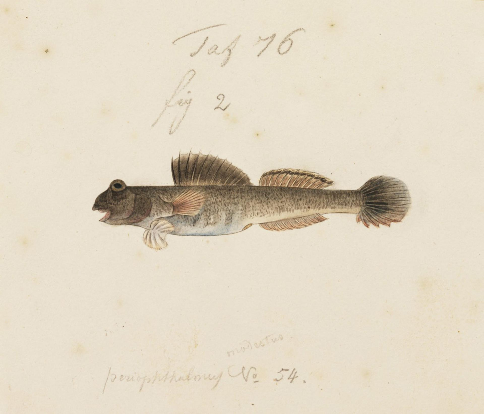 Periophthalmus modestus syn. P. cantonensis (Osbeck)